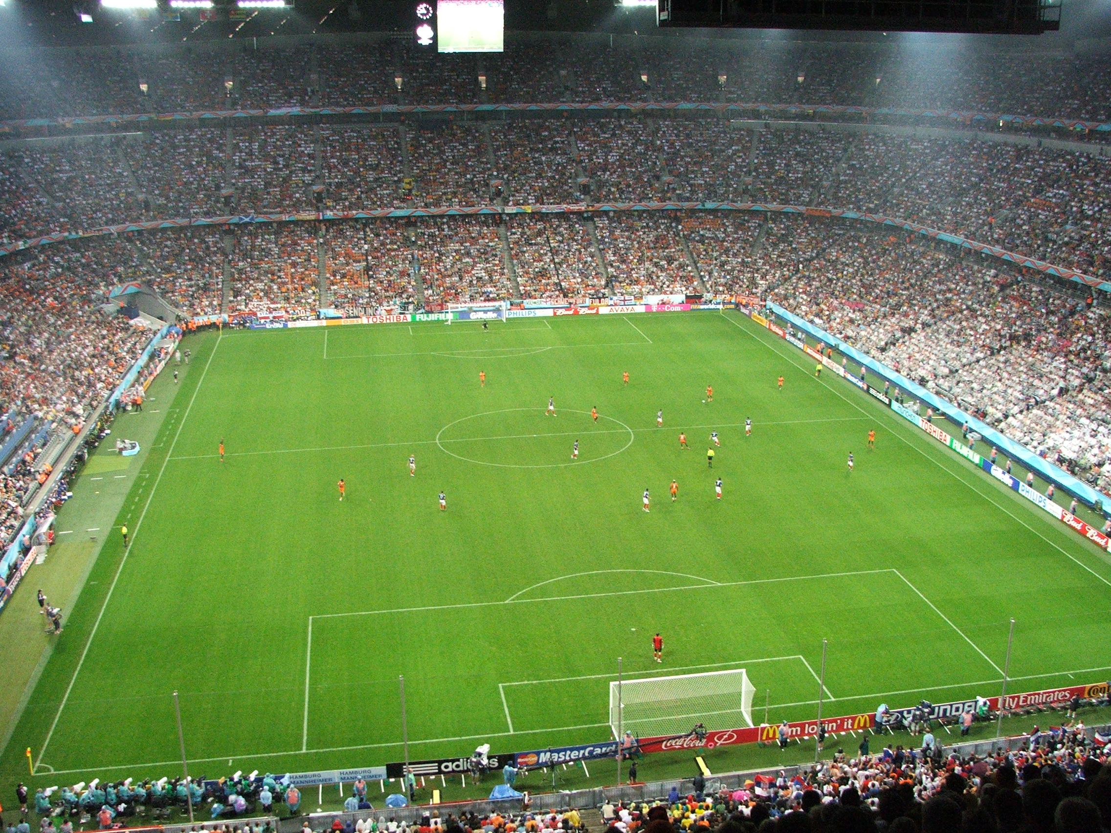 Allianz Arena in Munich. Côte d'Ivoire - Serbia, World Cup 2006